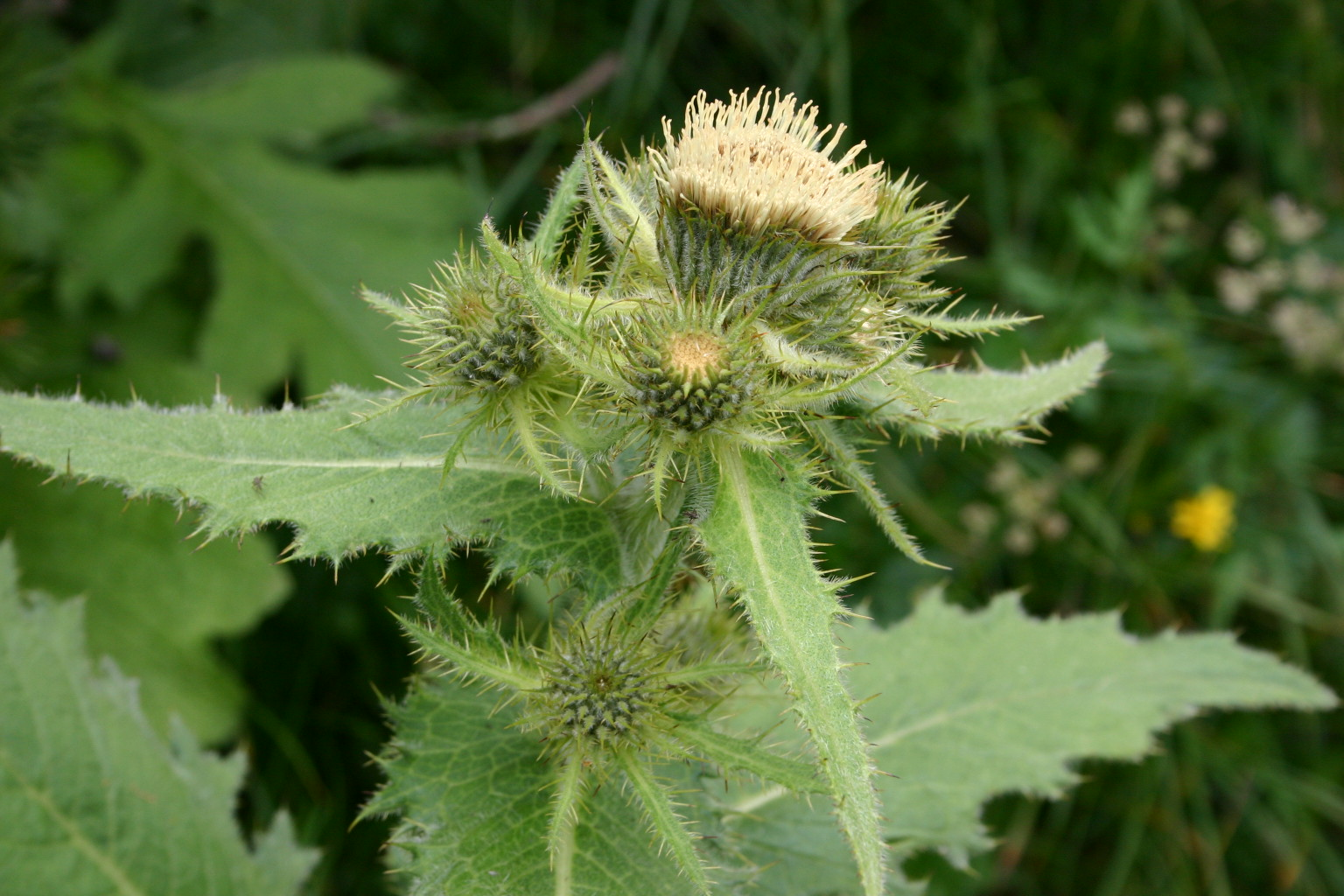 Cirsium carniolicum s.str.